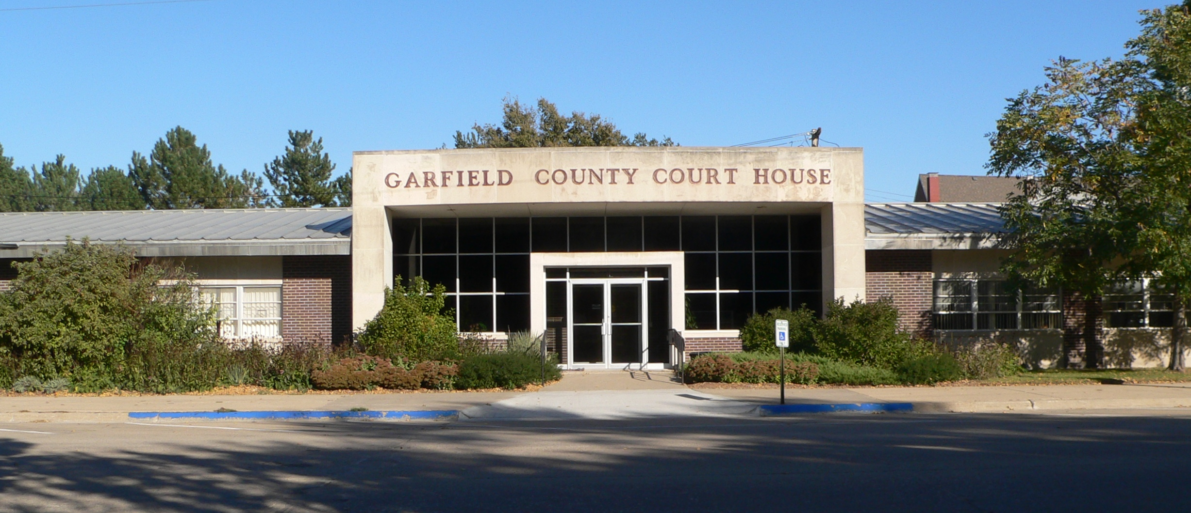 Central portion of Garfield County courthouse in Burwell, Nebraska; seen from the west.